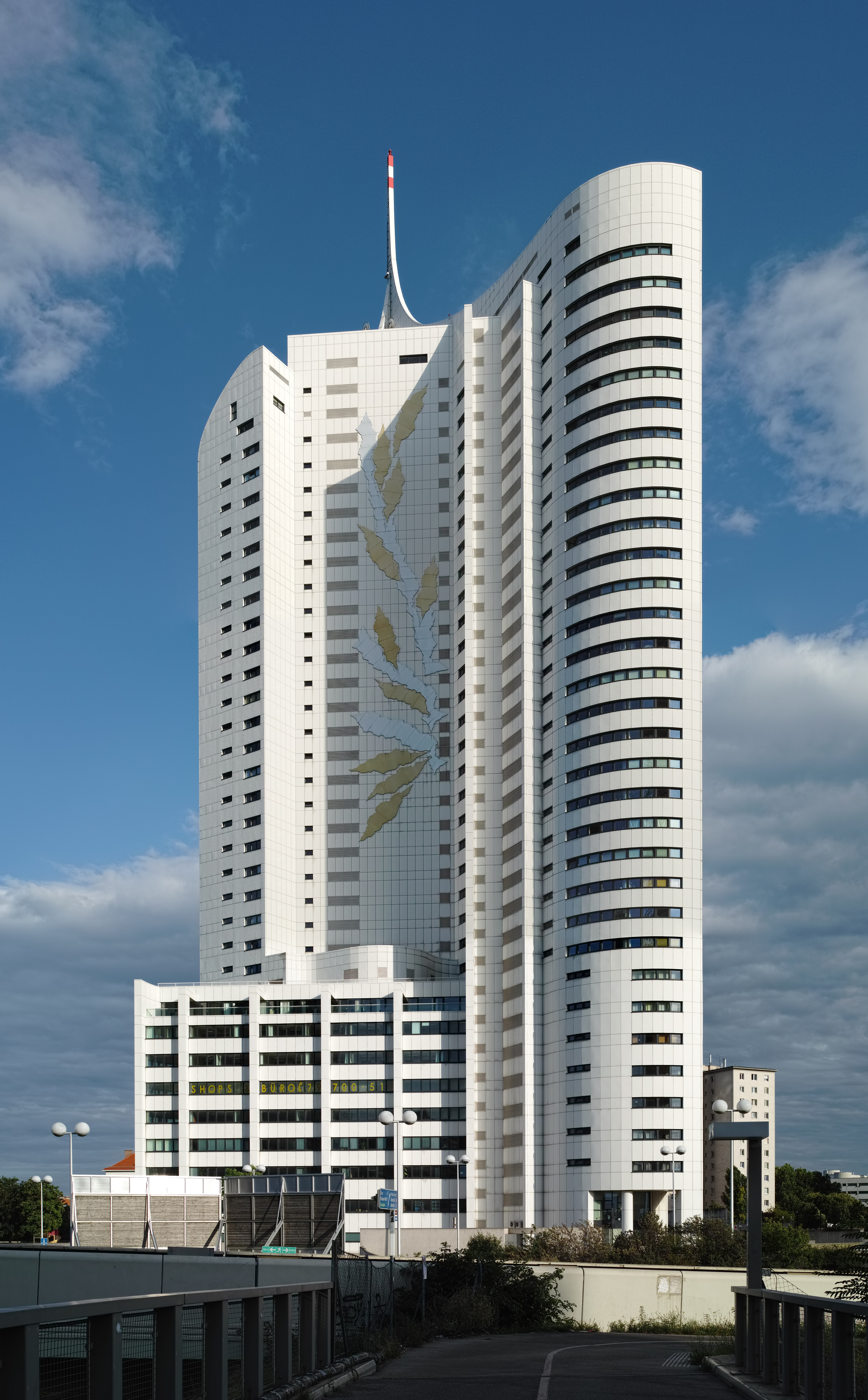 The Hochhaus Neue Donau is a residential skyscraper designed by Harry Seidler, and built in the years 1999-2002.